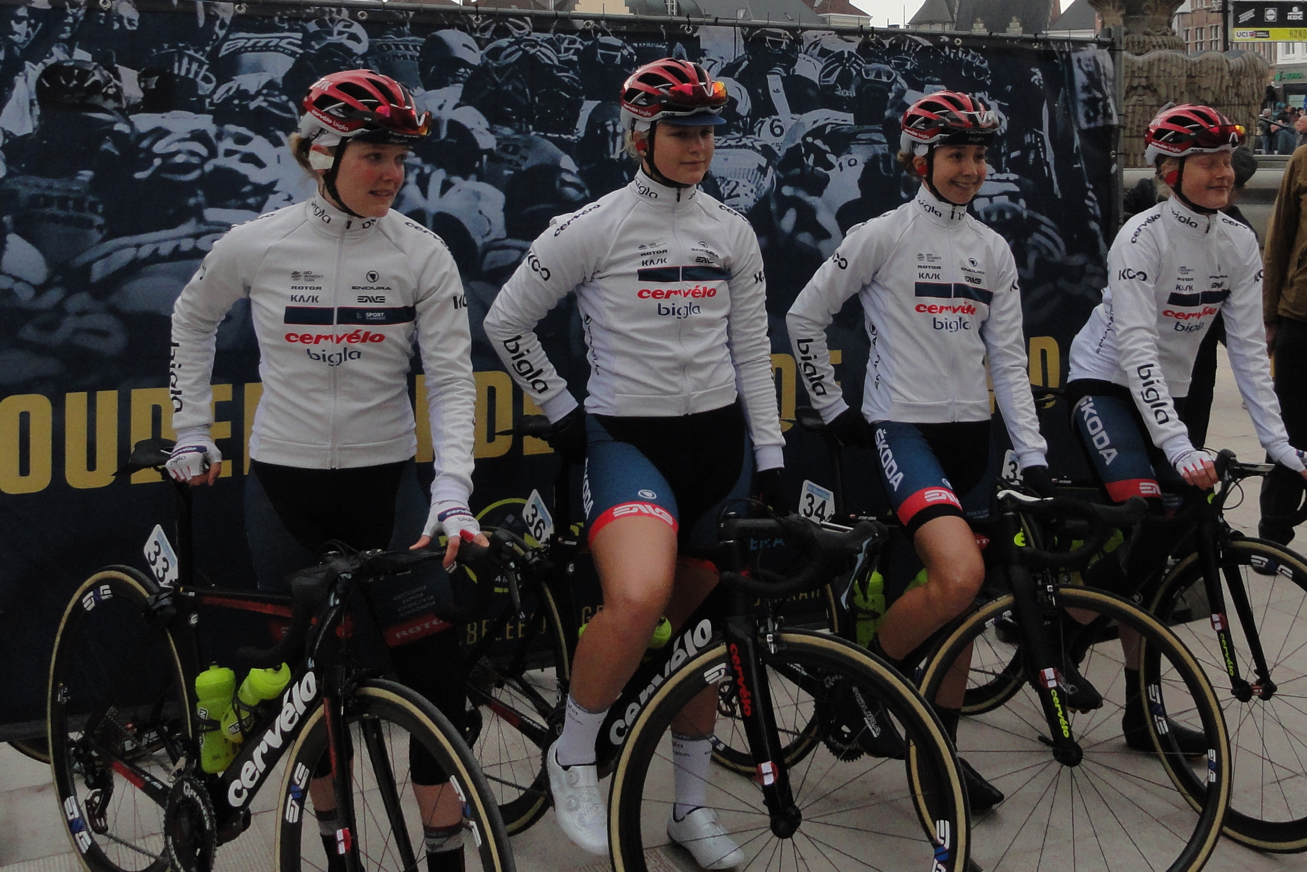 Team Cervélo Bigla at start of RVV 2018.